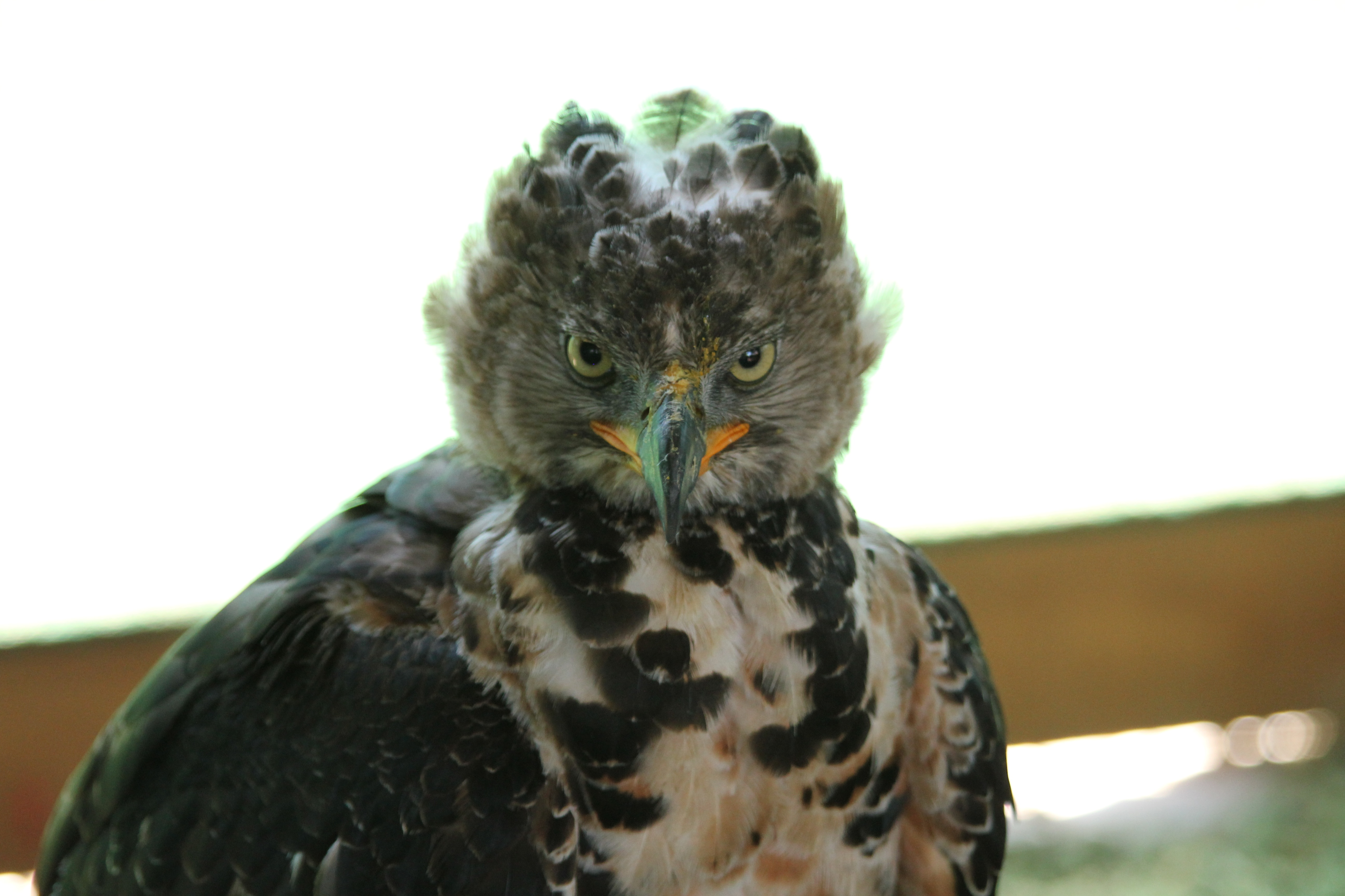 African Crowned Eagle